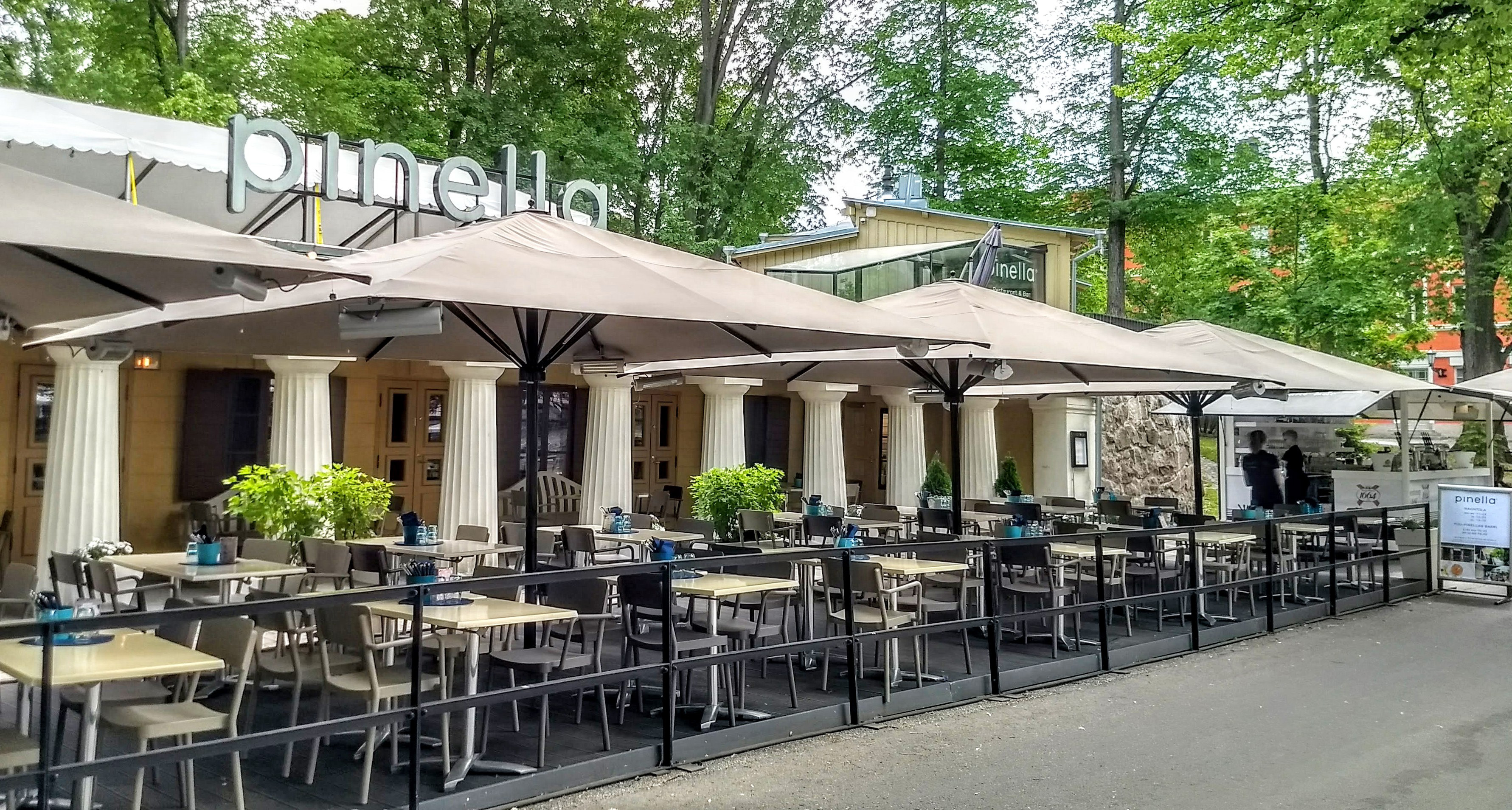 Restaurant Pinella, Turku, 2018